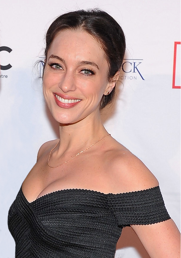 Actors Conservatory alumni Alexandra Ordolis at the Canadian Film Centre (CFC) Annual Gala & Auction in February 3, 2016. Cropped from the original version, File:The 2016 CFC Annual Gala & Auction (24722770471).jpg where she is pictured with fellow alumni Jade Hassouné. Photo: Sam Santos/George Pimentel Photography on behalf of Canadian Film Centre, Toronto, Canada.